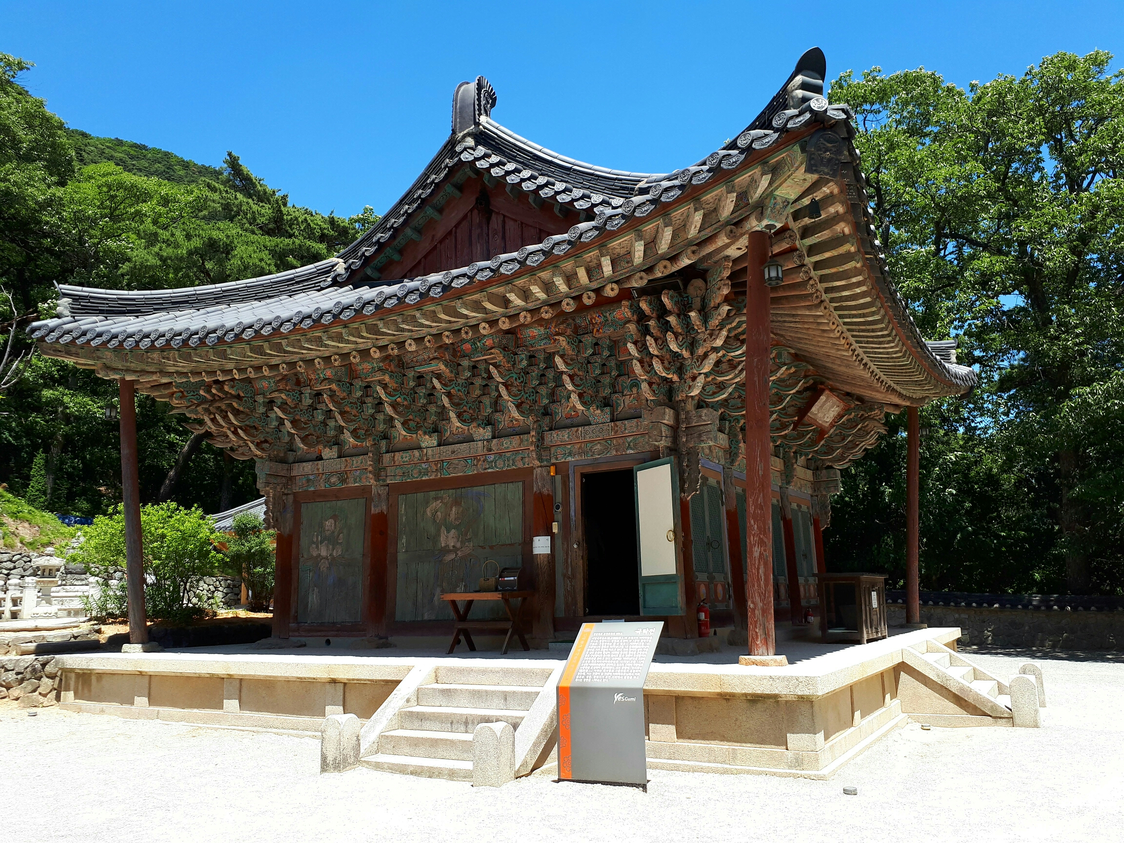 Dorisa Temple at Gumi